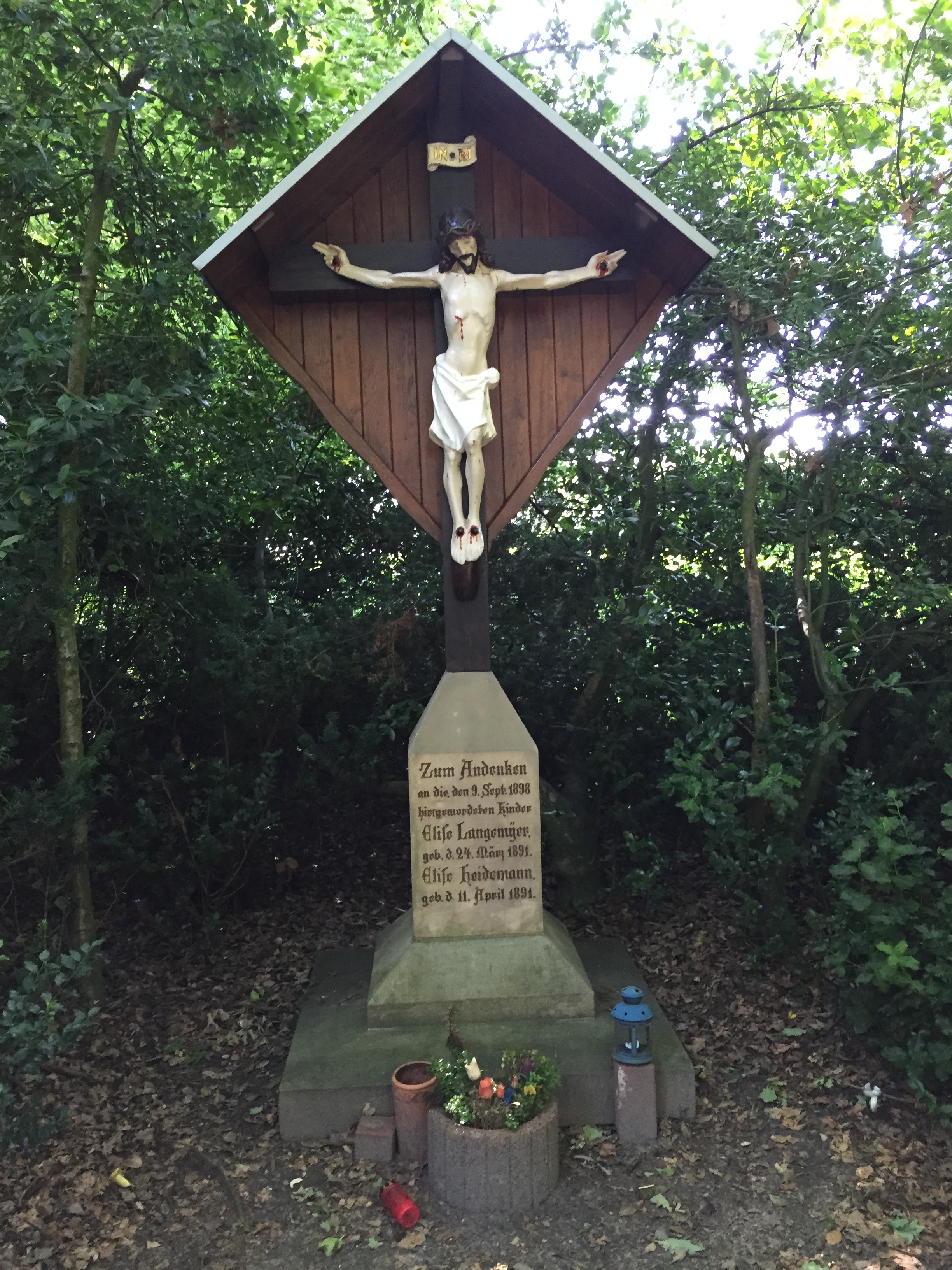 Memorial for the two children killed by Ludwig Tessnow in Lechtingen